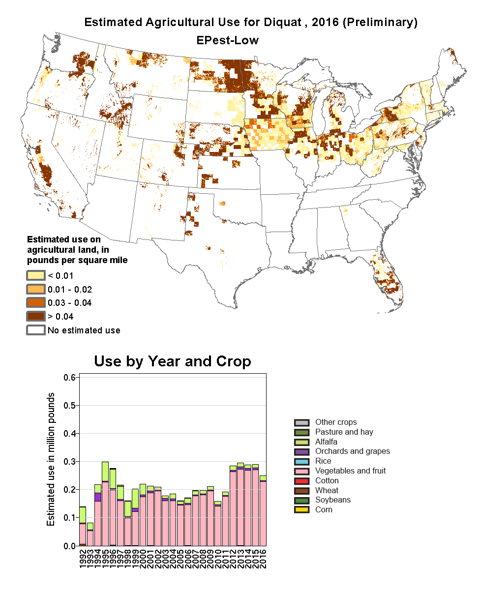 US Geological Survey estimate of use of the herbicide diquat in the USA in 2016